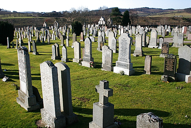 Marnoch Cemetery The cemetery lies close to River Deveron, on the original site of the Kirkton of Marnoch.